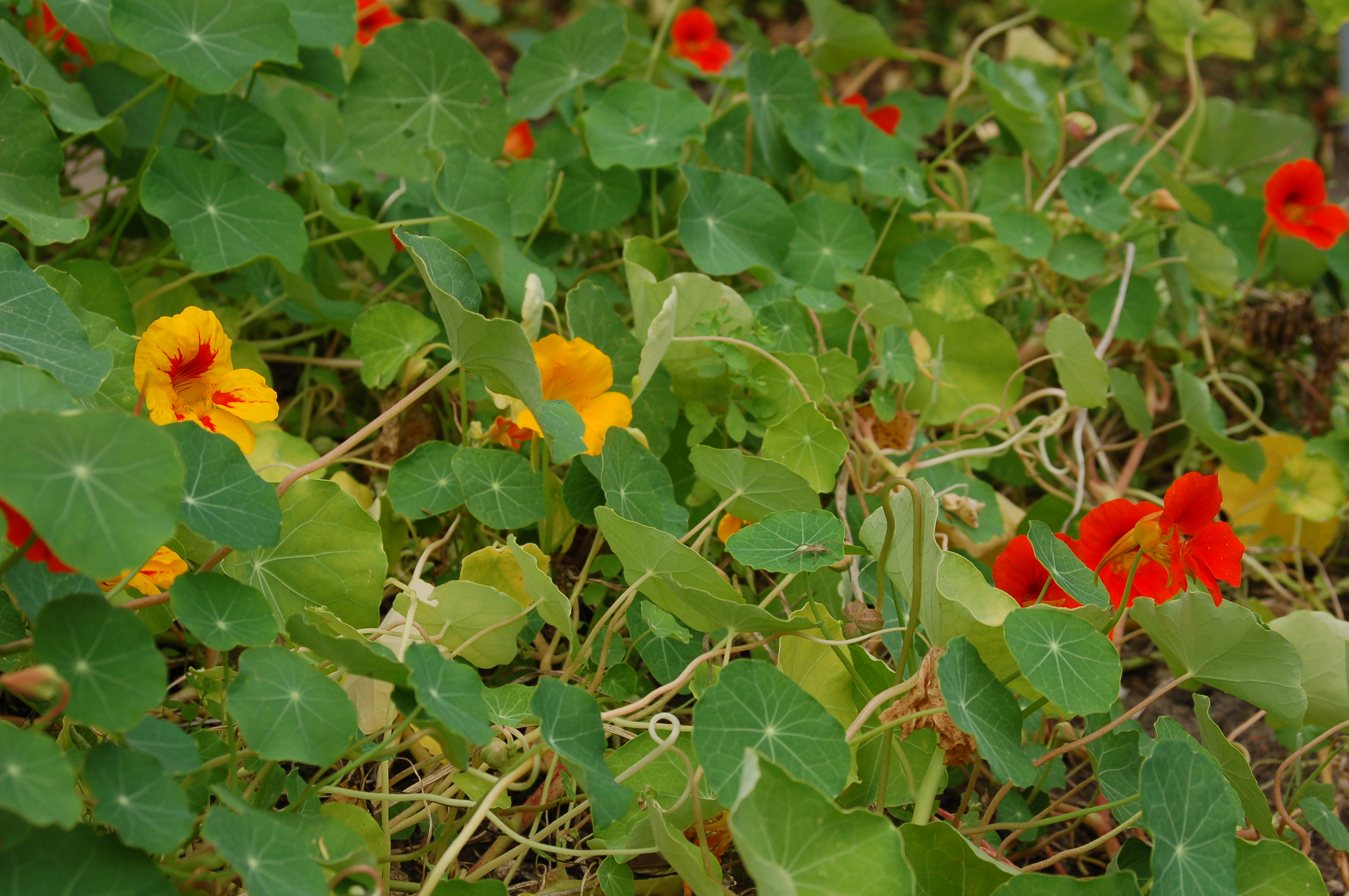 Tropaeolum majus - Botanical Garden Bremen